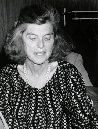 Special Olympics founder Eunice Kennedy Shriver.